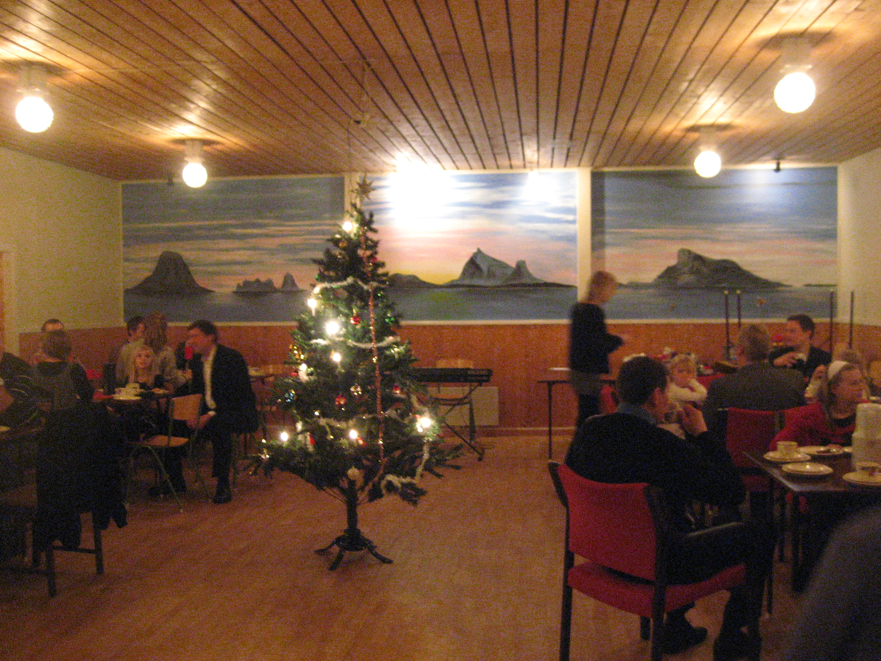 Kvina forsamlingshus